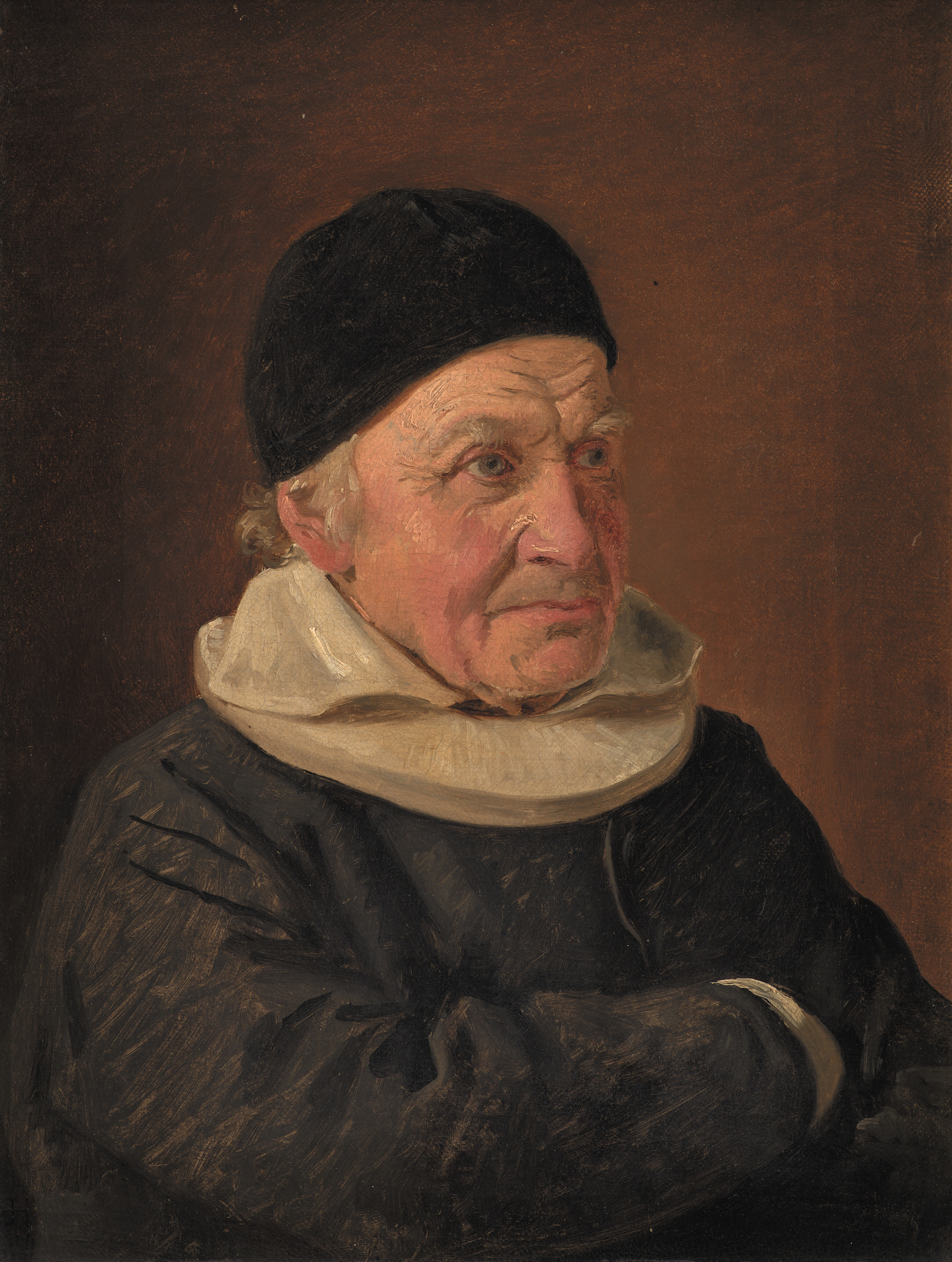 The Danish vicar Jens Bindesbøll (1756-1830)